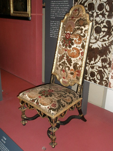 Chair About 1700. The tall, shaped back and complex outline of this chair frame are close to designs published by the court designer Daniel Marot (about 1661-1752). The original multi-coloured Italian velvet upholstery has been replaced. Beech, carved, painted and gilded, the upholstery modern. Made in an unknown London workshop. Supplied to the 1st Duke of Leeds (1631-1712), probably for Kiveton Park, South Yorkshire. Given by Baron Philippe de Rothschild. Museum no. W.11-1964. Wikipedia Loves Art at the Victoria and Albert Museum This photo of item # 11-1964 W 11-1964 at the Victoria and Albert Museum was contributed under the team name "nathanne" as part of the Wikipedia Loves Art project in February 2009. Victoria and Albert Museum The original photograph on Flickr was taken by nathanln—please add a comment to the original Flickr page whenever a use has been made on Wikipedia or another project. Project galleries on Flickr: this institution, this team